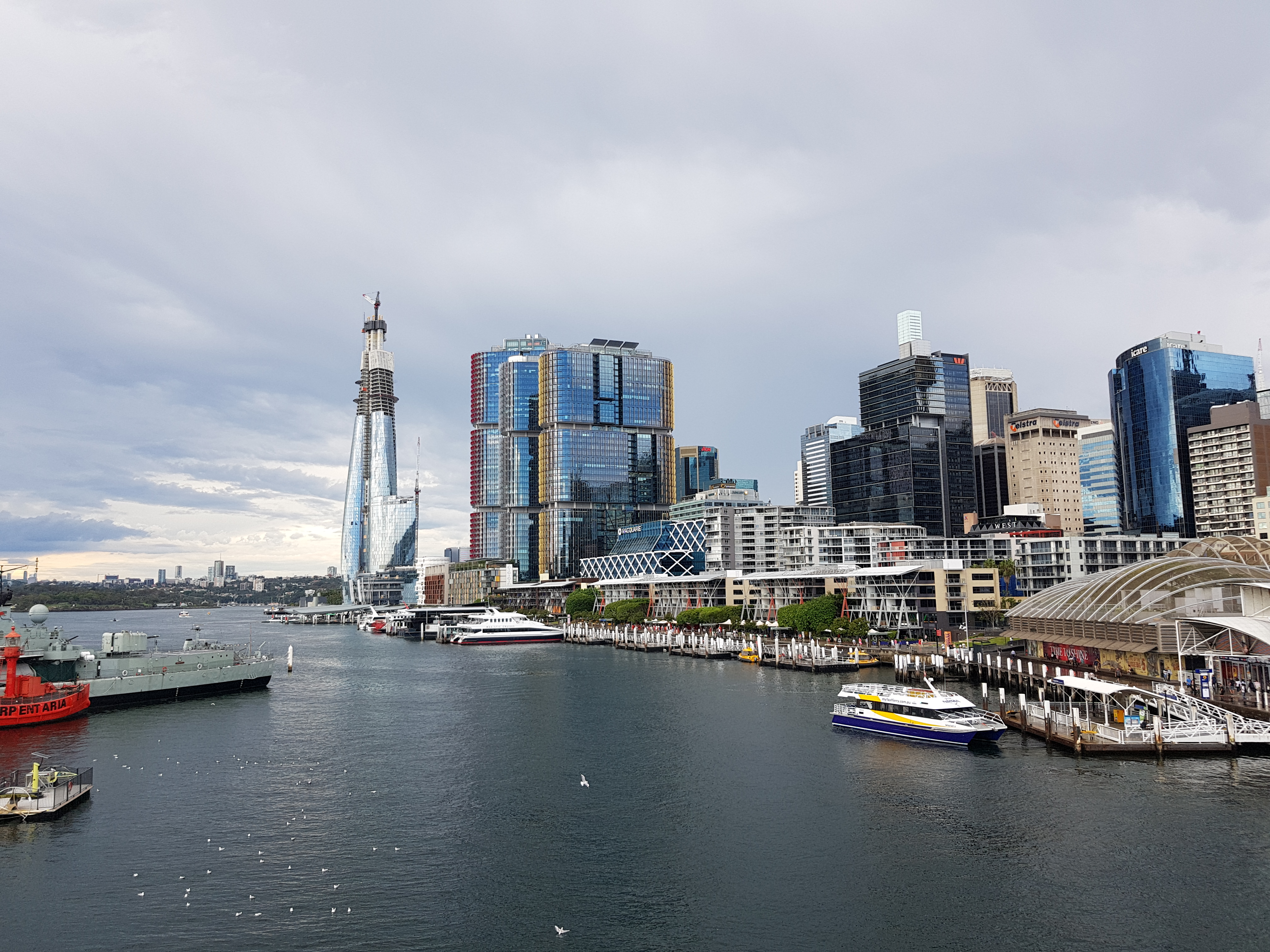 Barangaroo from Pyrmont Bridge